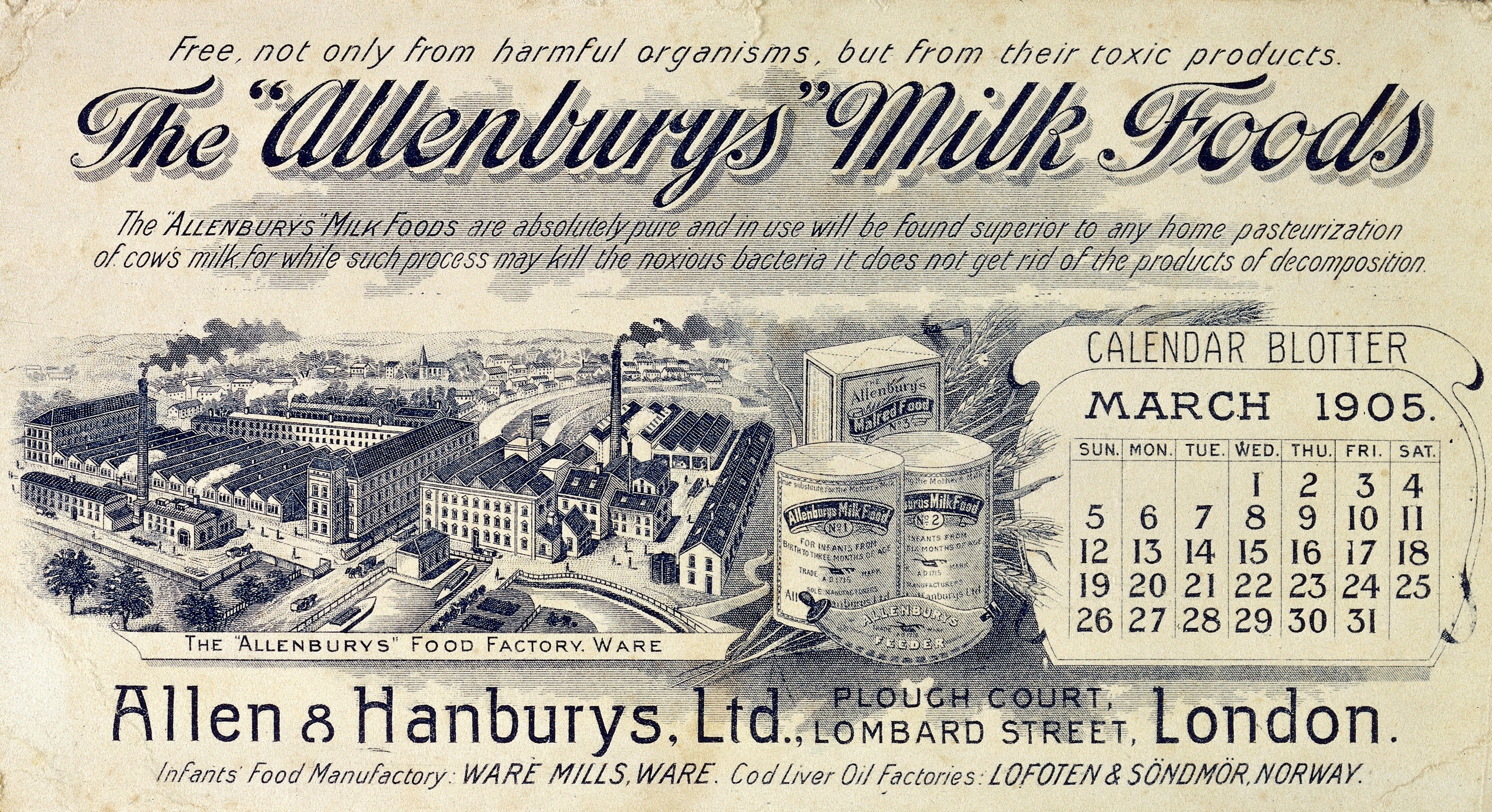 Ephemera Collection. QV: Blotters: Allen & Hansbury, 1904-1909. The "Allenburys" milk foods. Blotter. London: Allen & Hansburys, Ltd., 1905. Wellcome Images Keywords: NUTRITION; Infant Care; allen & hansbury; blotter; Allenburys Milk Food.; allenburys; Infant Food; Allenburys Malted Food.; Nutritional Physiological Phenomena